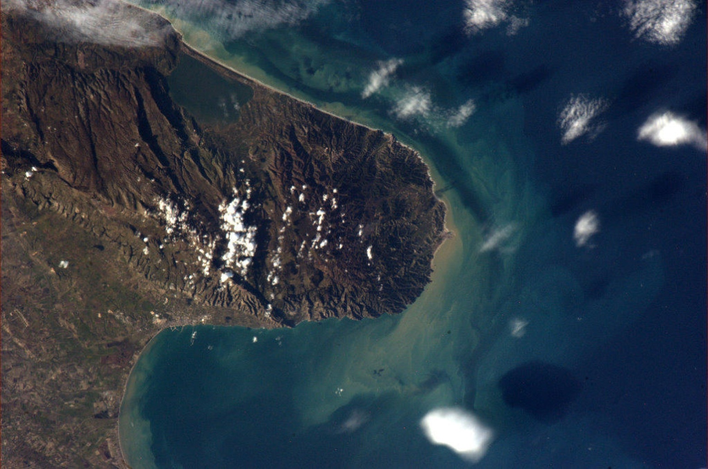 Satellite picture of Italy